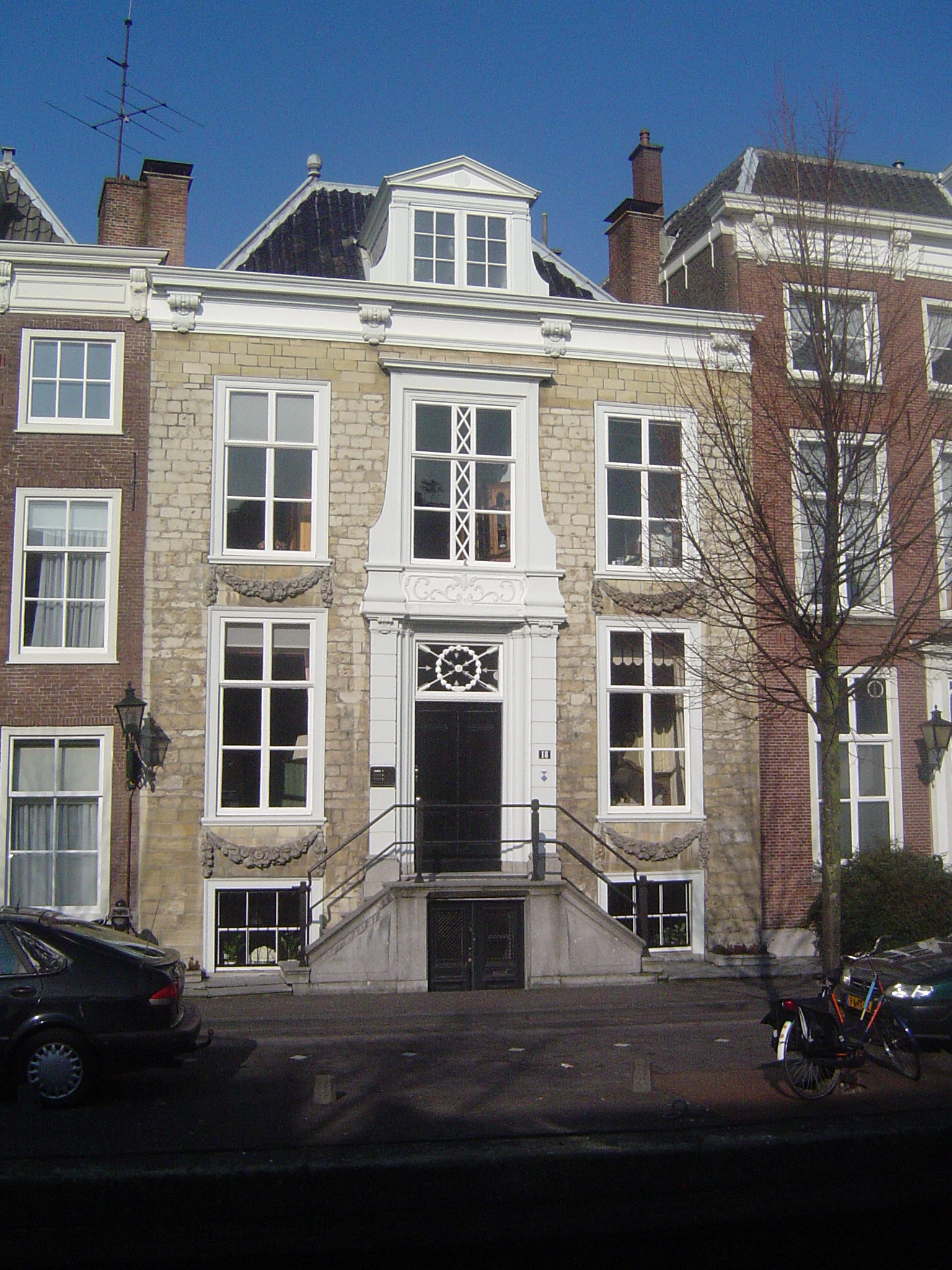 Building at Dunne Bierkade 18 in the Hague. This is a rijksmonument.